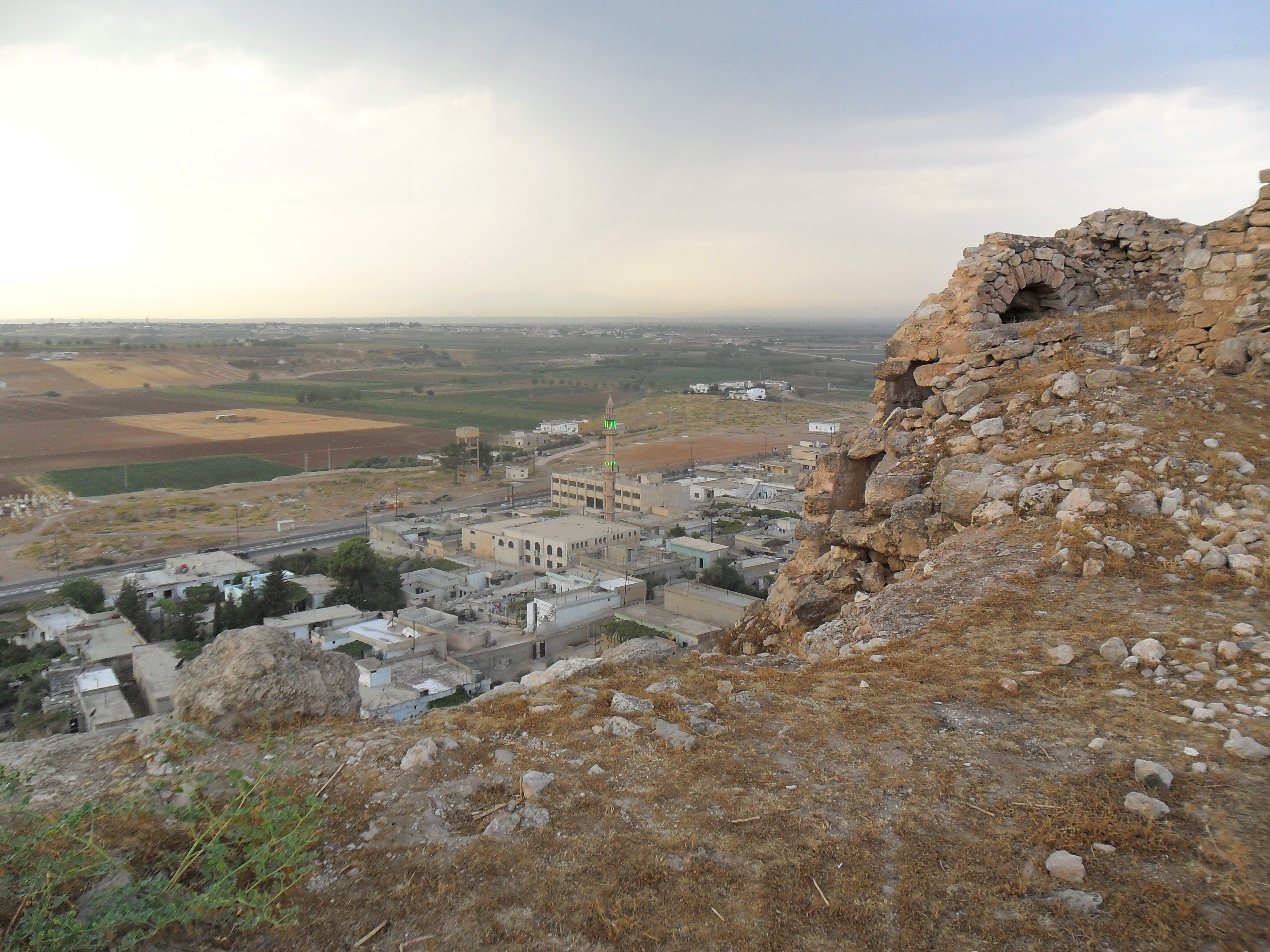 View on the town an mosque of Shayzar, Syria, seen from the citadel.